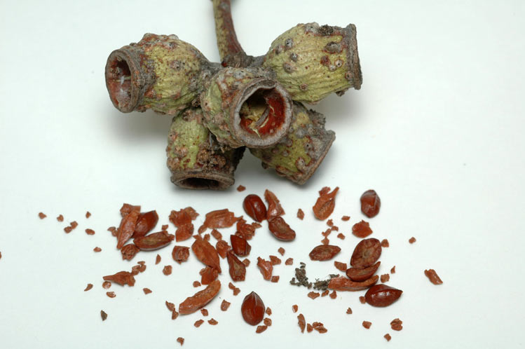 Capsules ("gum nuts") and seeds of Corymbia eximia in the Australian National Botanic Gardens